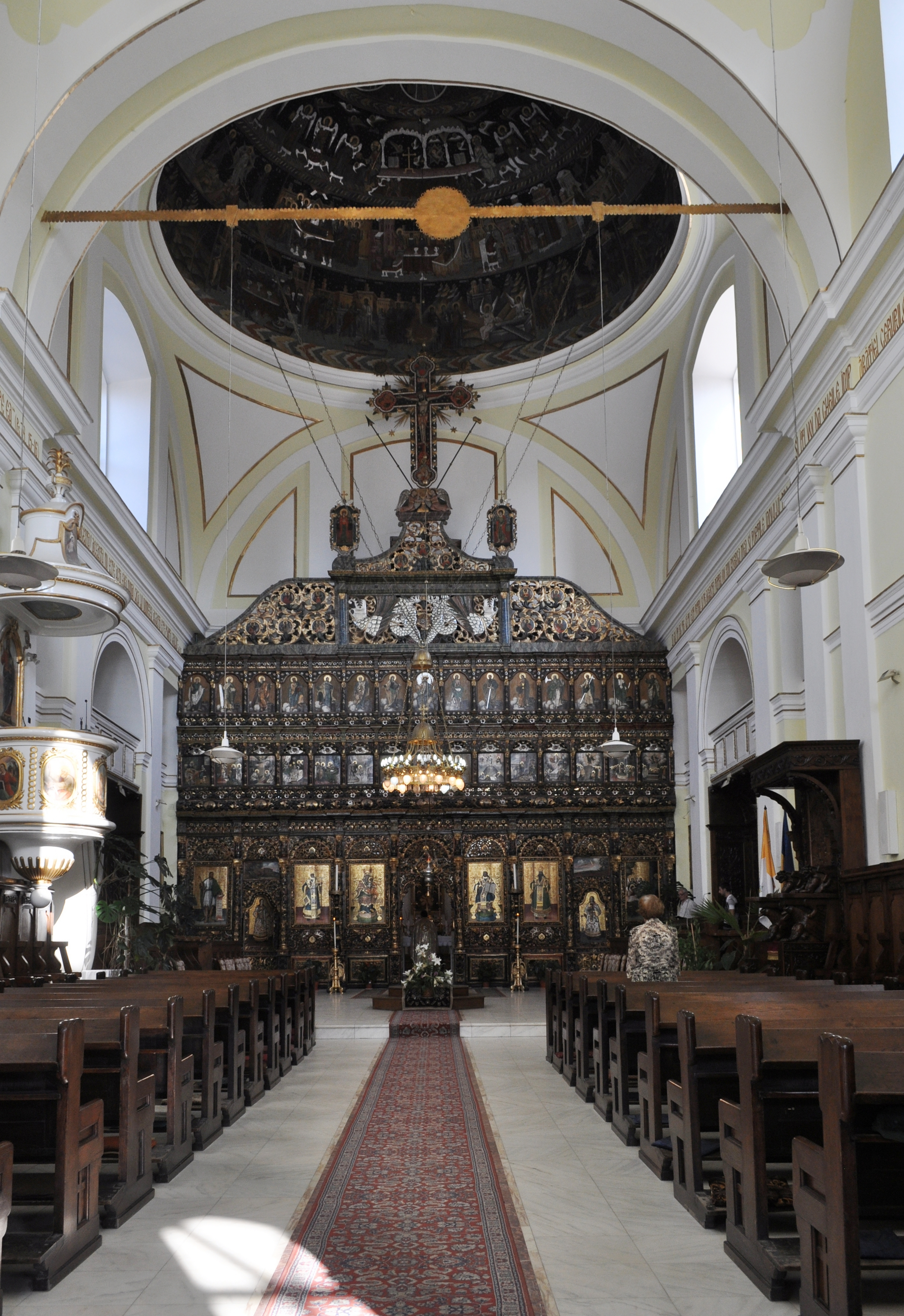 ”Holy Trinity” Greek-Catholic Archbishop's Cathedral in Blaj